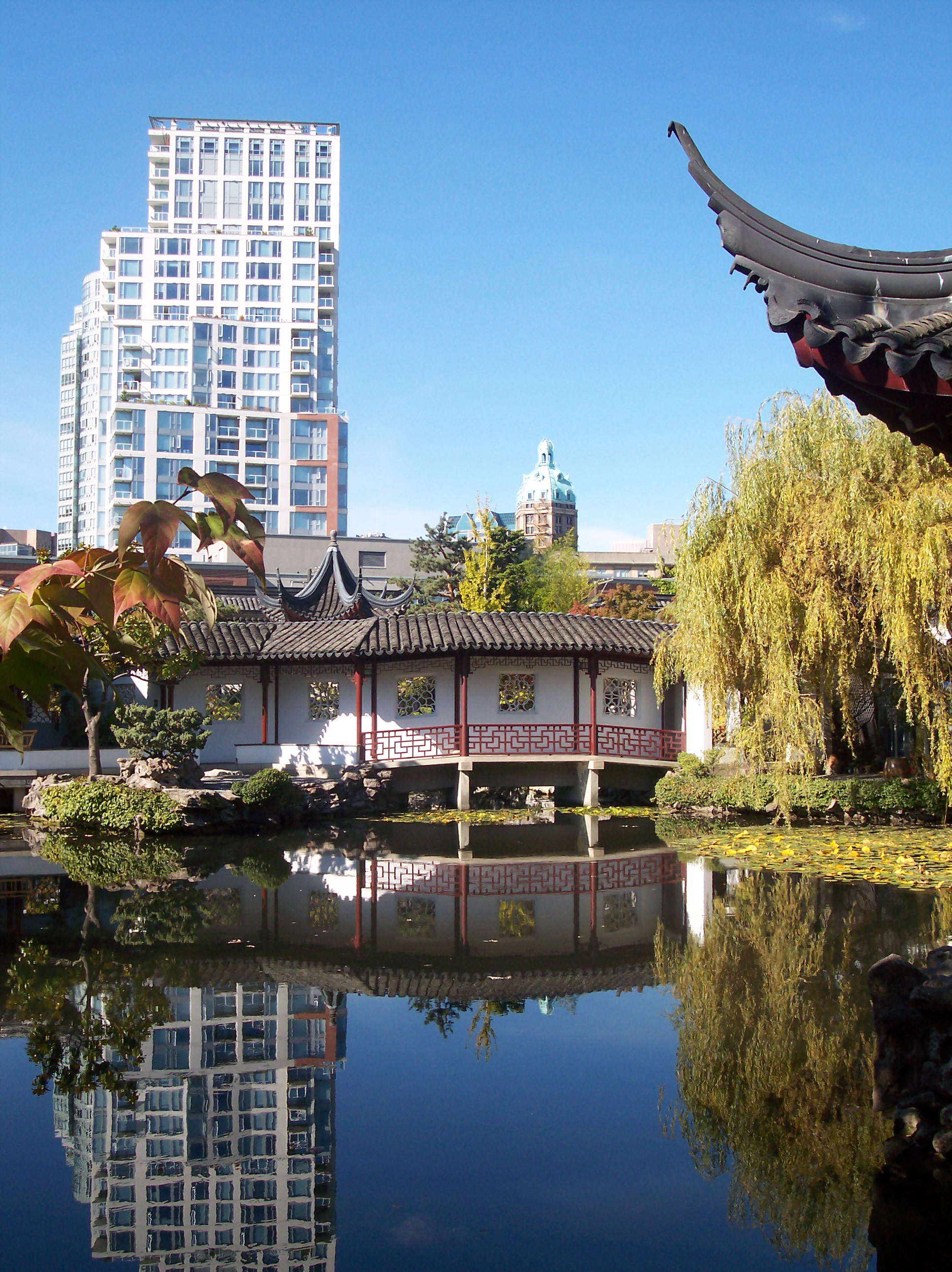 Dr Sun Yat Sen Classical Garden, Chinatown, Vancouver, BC, Canada